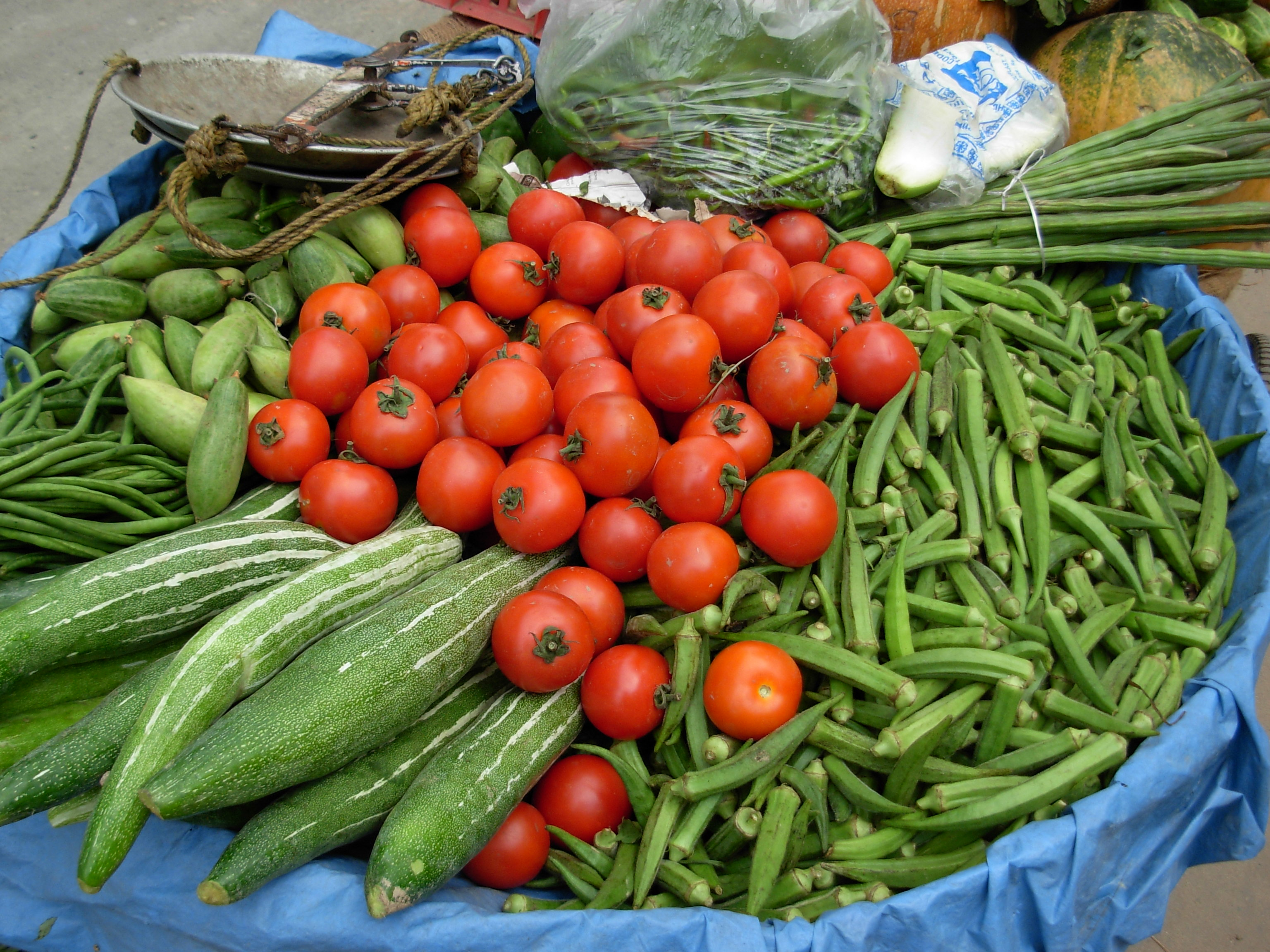 Fresh vegetables are available everywhere at Howrah